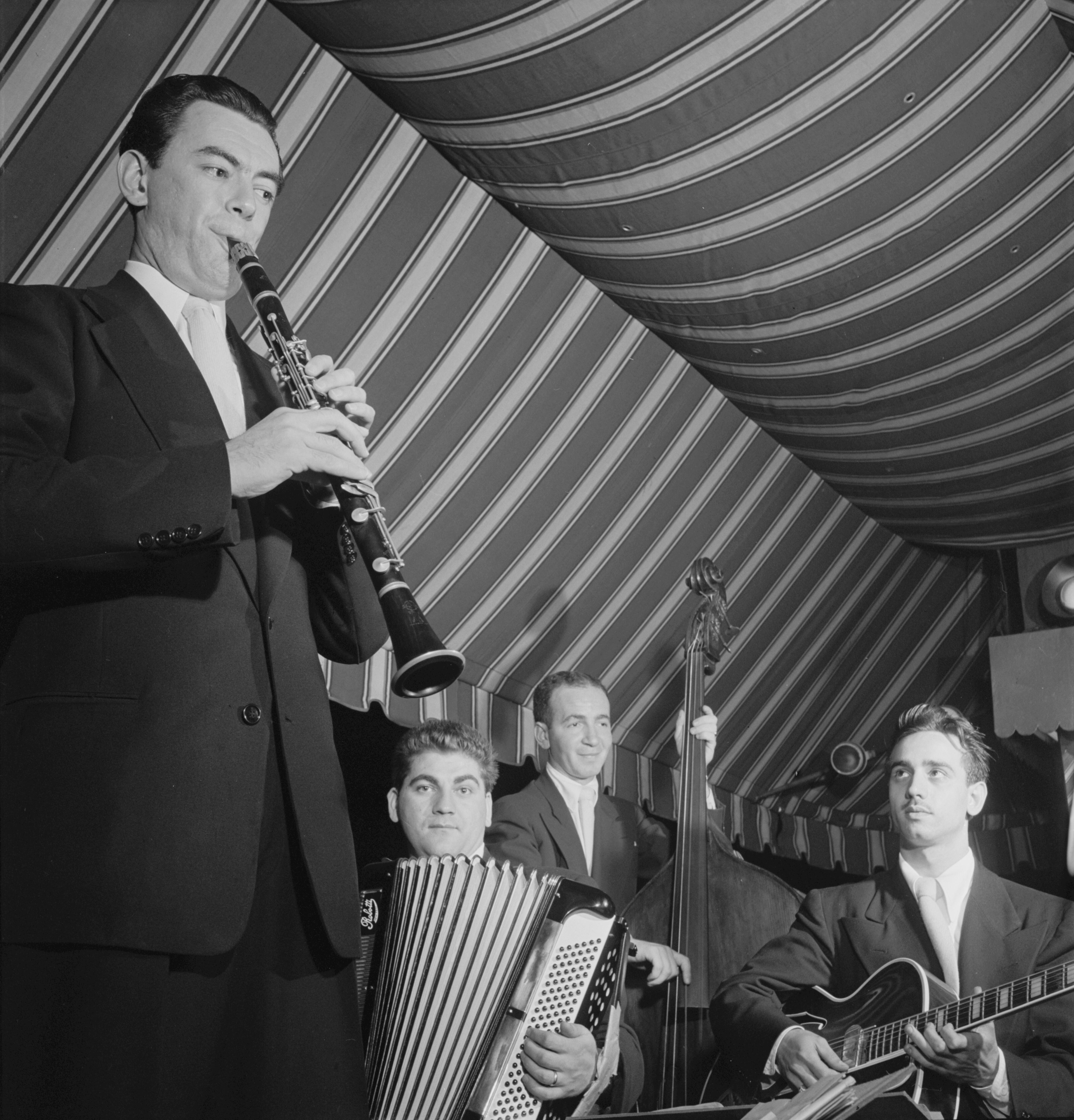 Abe Most (links) mit Pete Ponti, Sid Jacobs, and Jimmy Norton, Hickory House, New York, N.Y., ca. June 1947 (Photograph by William P. Gottlieb)